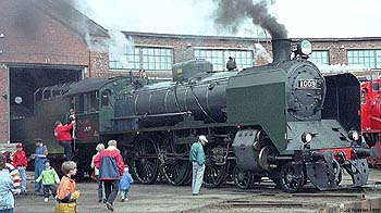 Finnish Hr1 class 4-6-2 steam locomotive, nicknamed "Ukko-Pekka"